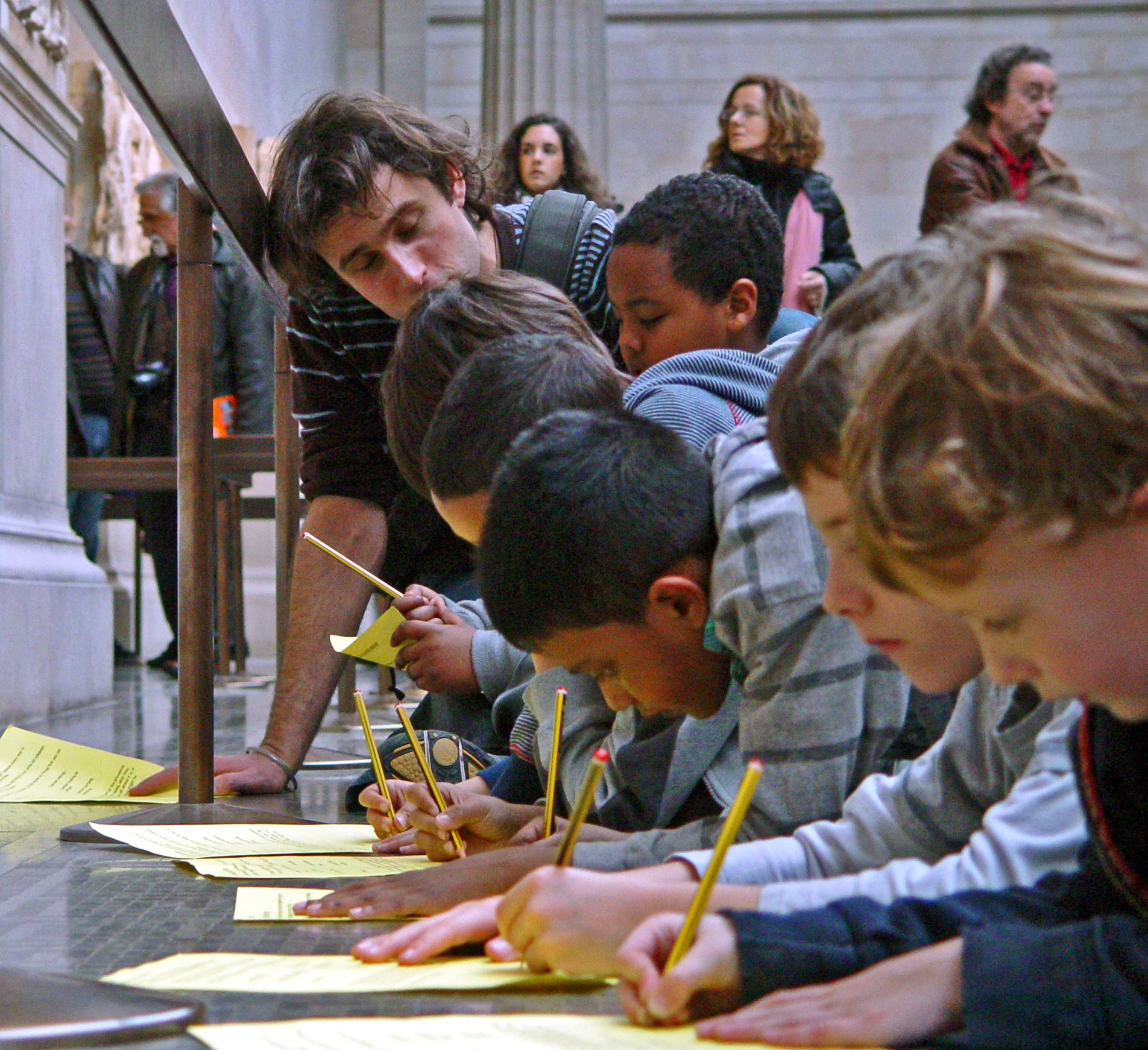 A teacher and young pupils at The British Museum Duveen Gallery